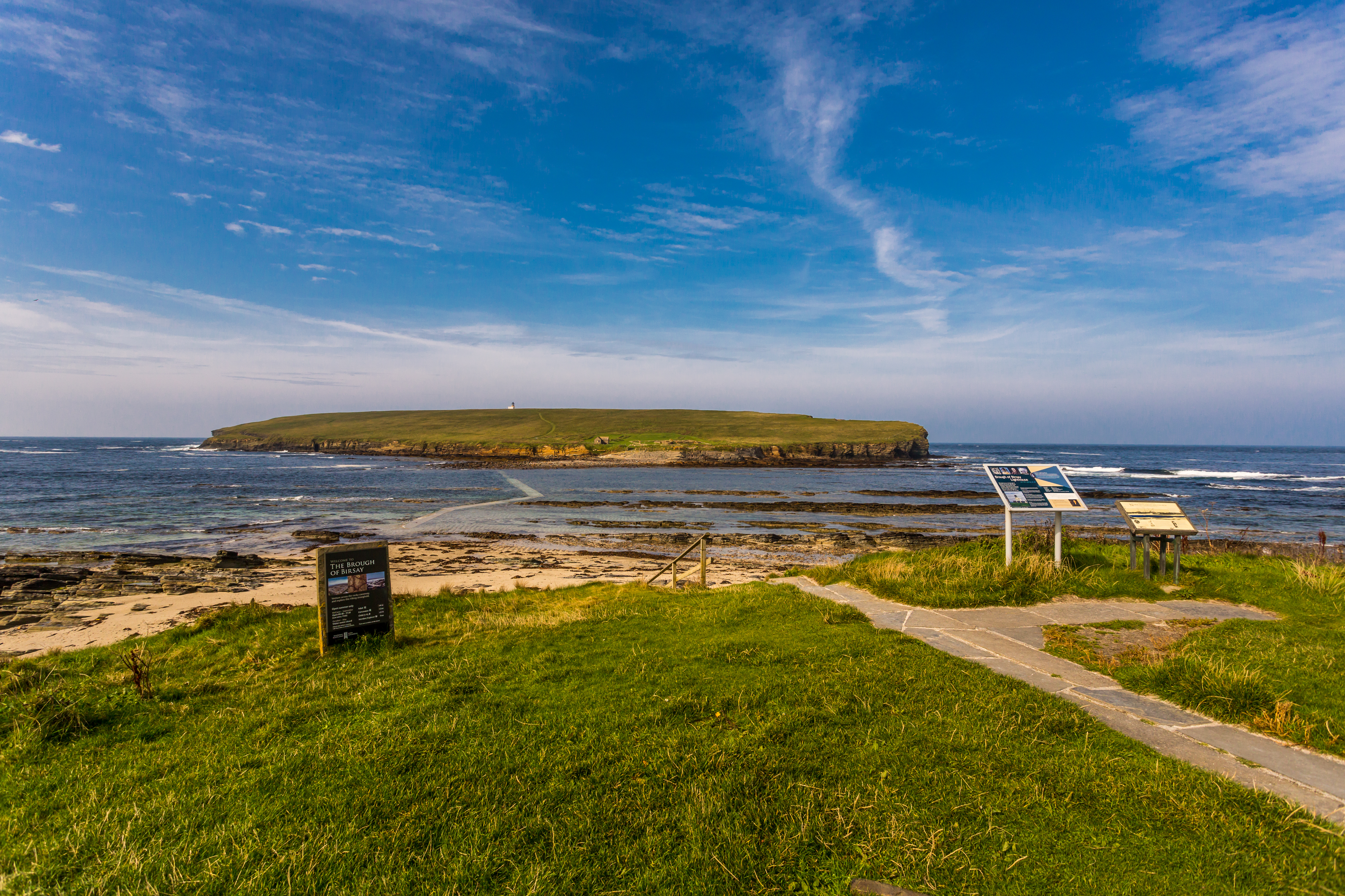 Brough of Birsay